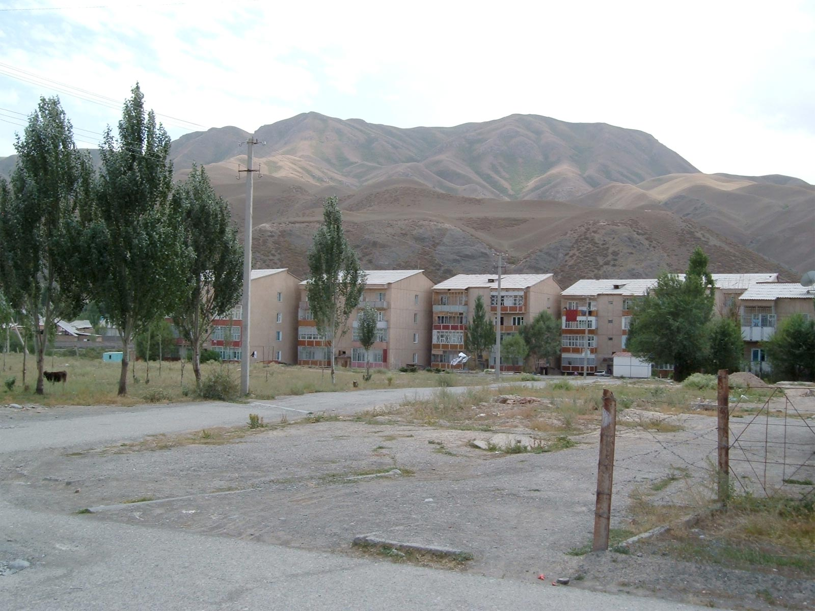 Description: Apartment buildings in Naryn, Kyrgyzstan. Source: Image taken by hux. Date: Aug 2, 2006. Permission: Released into the public domain. Other versions of this file: No.